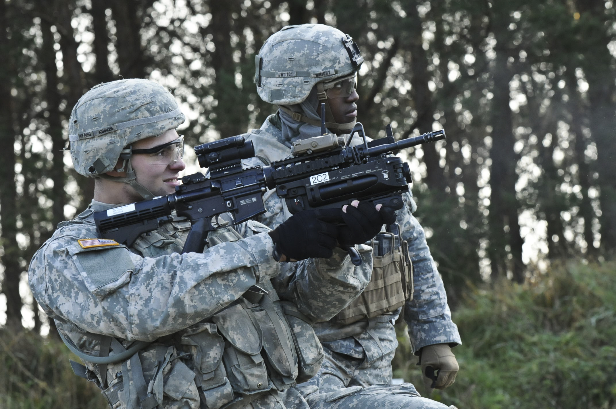 Dragoon Troopers assigned to 1st Squadron, 2nd Cavalry Regiment fire 40 mm practice rounds from a M320 grenade launcher during their grenade launcher qualification range at Grafenwoehr Training Area located near Rose Barracks, Germany, Nov. 25, 2014. Troopers familiarized themselves with the weapon prior to qualifying later on in the day.